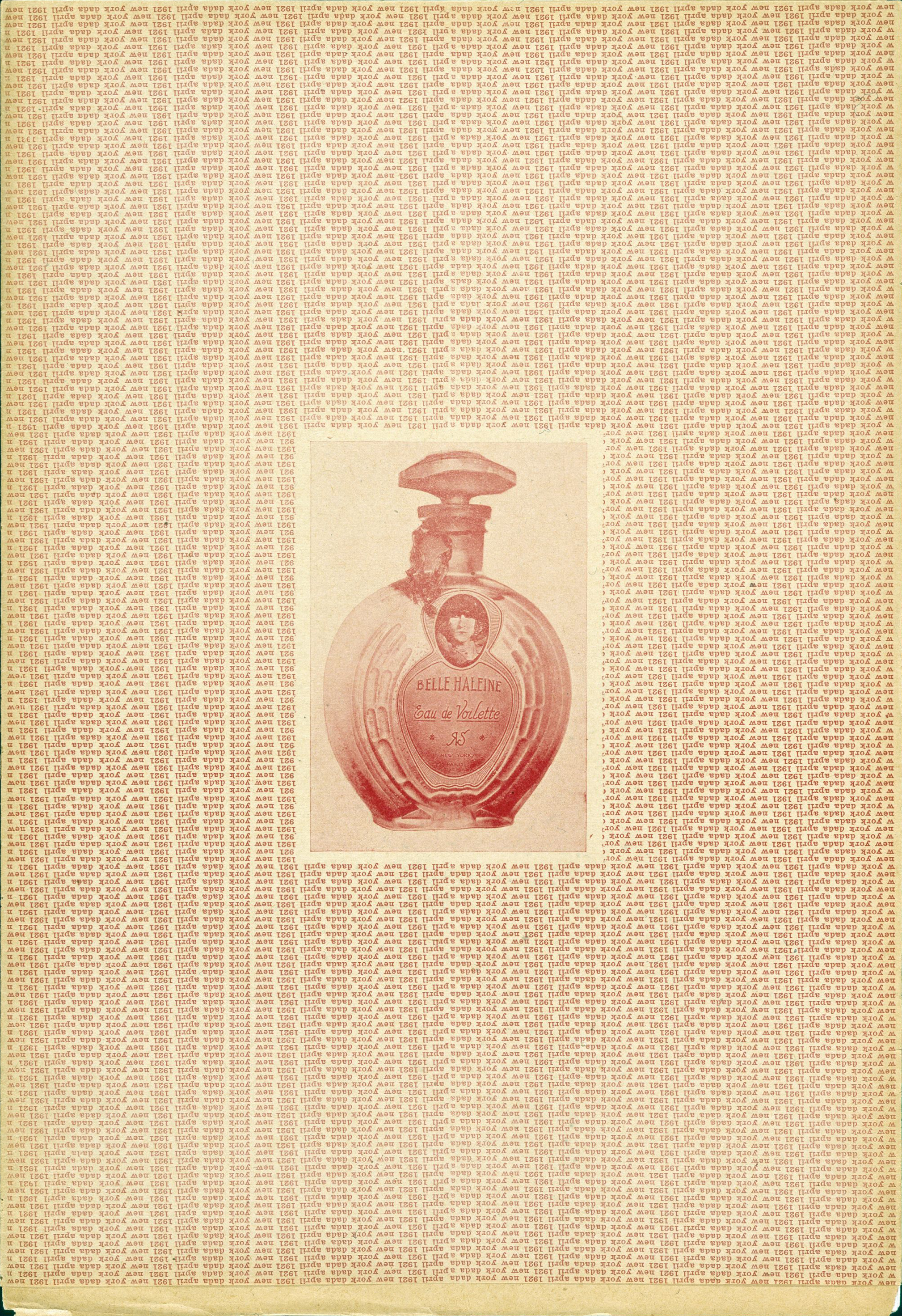 Marcel Duchamp (Rrose Selavy), Man Ray, 1920-21, Belle Haleine, Eau de Voilette. Cover of New York Dada magazine. Photograph of a "readymade" made of a Rigaud brand perfume bottle with a modified label. The photograph was published on the cover of New York Dada, New York, April 1921 (cf. The Oxford Critical and Cultural History of Modernist Magazines: Volume III: Europe 1880 - 1940, p.177).